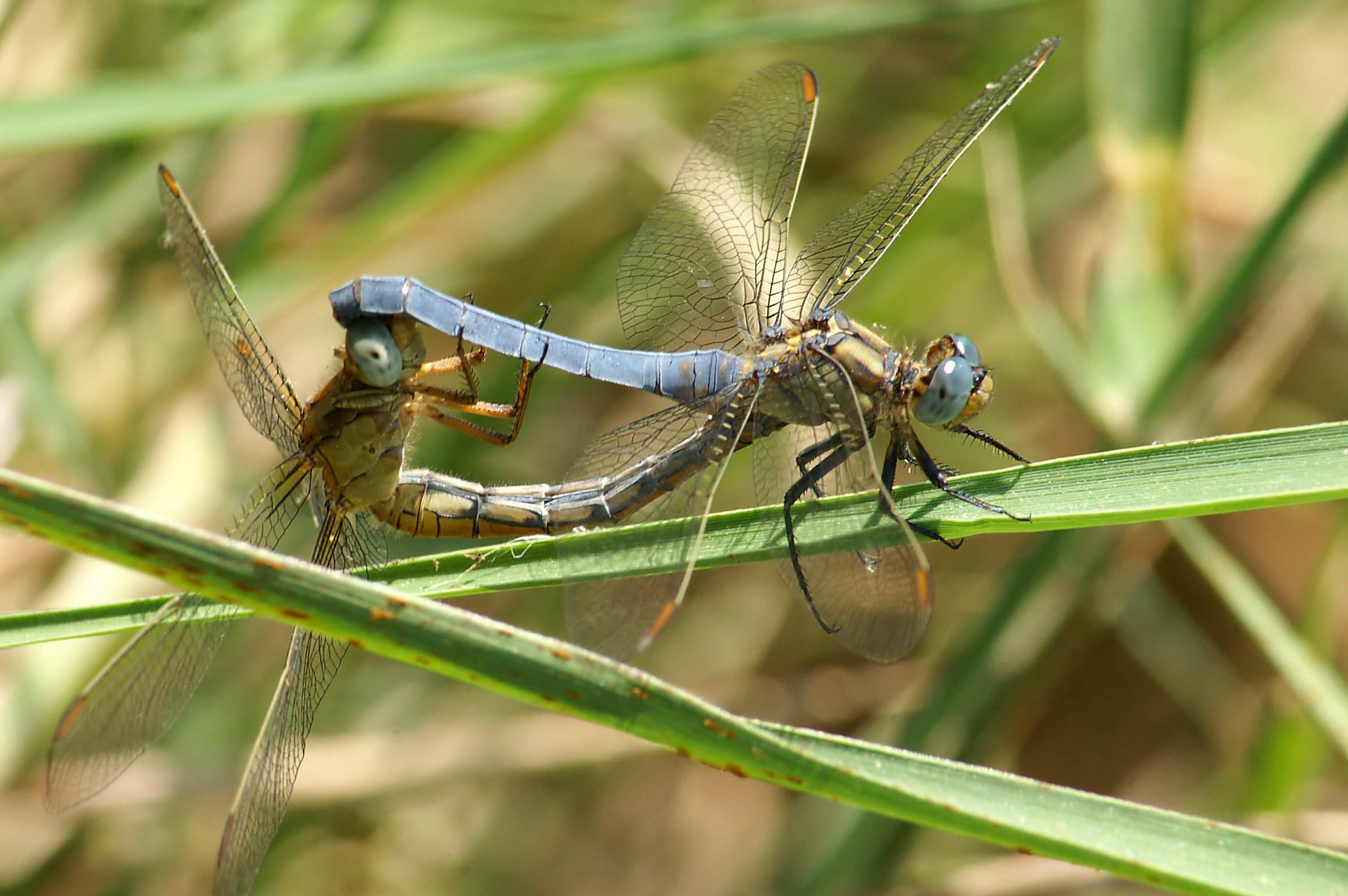 Keeled Skimmer This species resembles the Black-tailed Skimmer but is slimmer and the male has no black tip. Females and immature males lack the black abdominal pattern. The pterostigma is orange and the thorax usually bears pale stripes. It breeds mainly in peat bogs and flies (in the UK) from June to September.